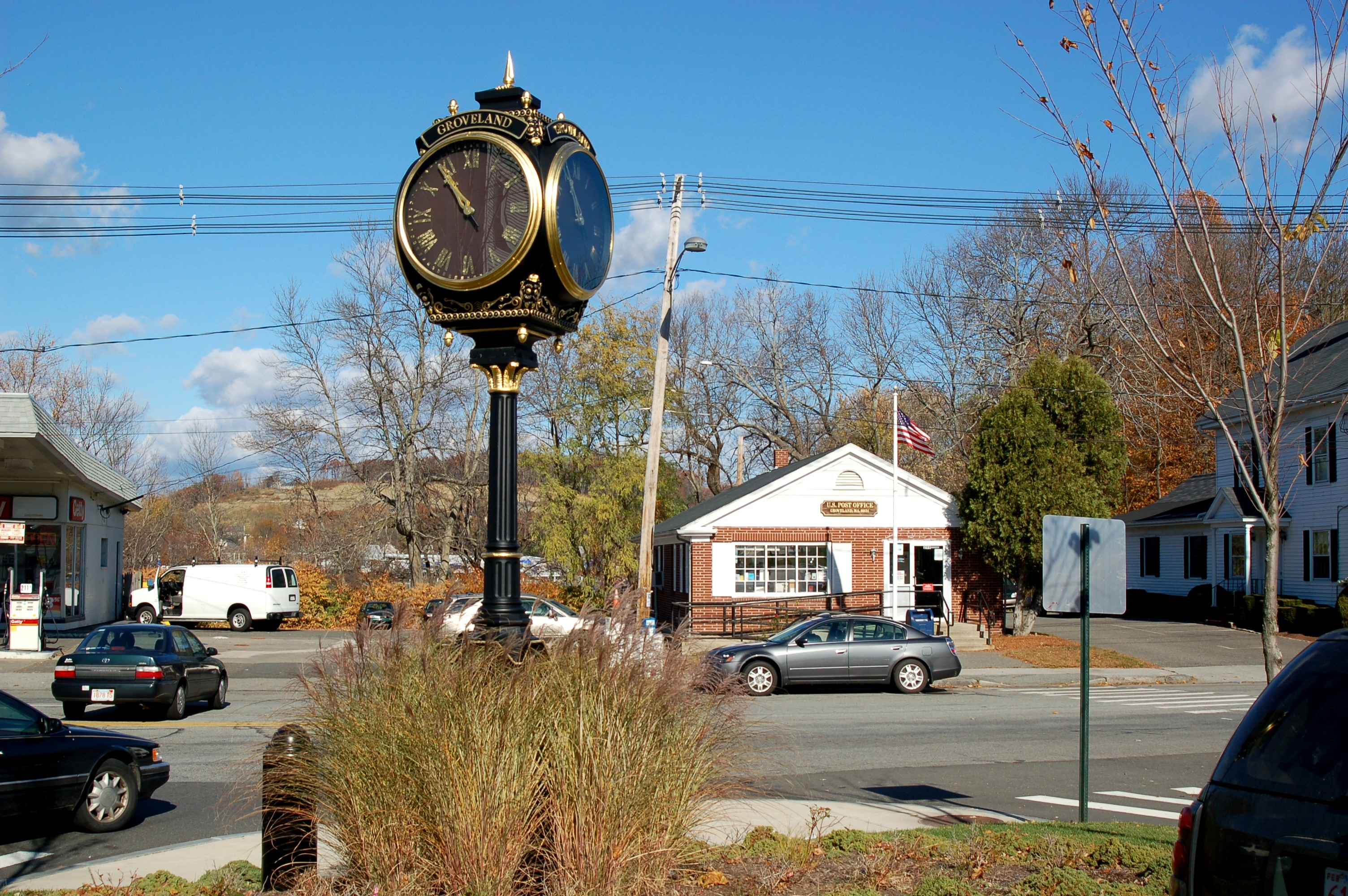 Groveland, Massachusetts Post Office. Photh taken by Author, Richard B. Johnson.